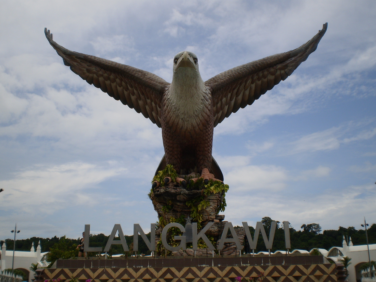 The eagle statue at Dataran Lang, one of the most popular landmark of Langkawi Island, Malaysia.